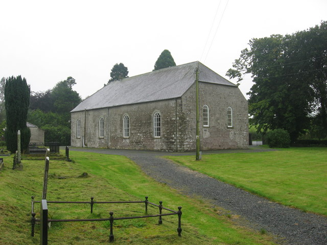 First Presbyterian Church, Ballybay, Co. Monaghan, near to Edenancane, Corfad, Balladian, Creevagh and Ballybay, Monaghan, Ireland. On the Ballybay to Clones road in the townland of Derryvally. Date stones over the door on the far gable and on the near gable, where it looks like there may also have been a door, are inscribed '1786'.